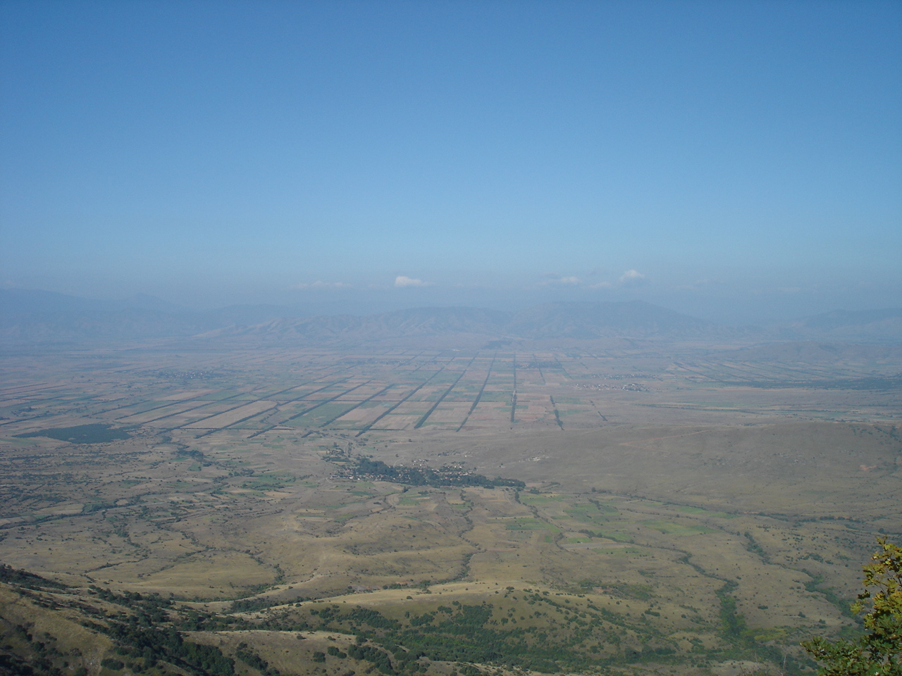 Pelagonia plain viewed from peak Visoka on Selecka Mountain, Macedonia